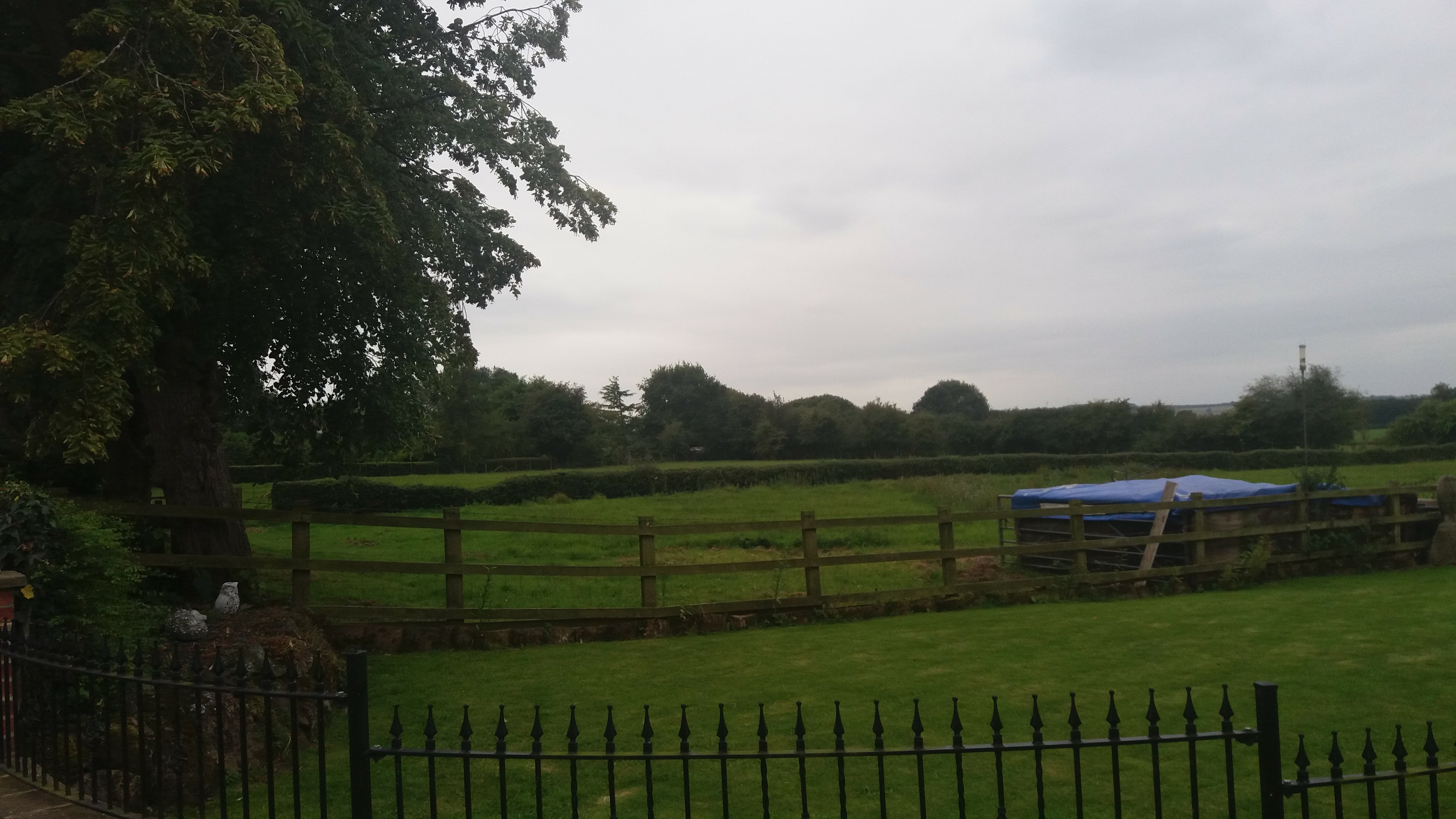 My own.